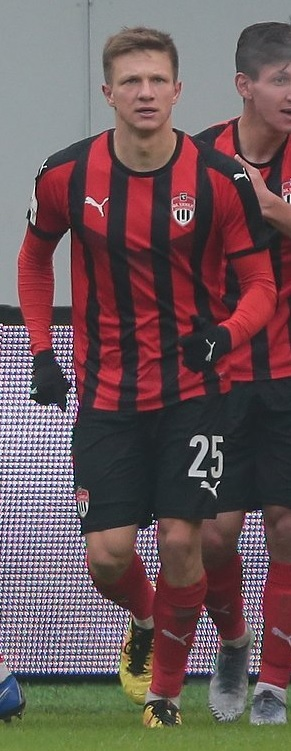 Oleksandr Filin with FC Khimki in a game against FC Zenit-2 Saint Petersburg.